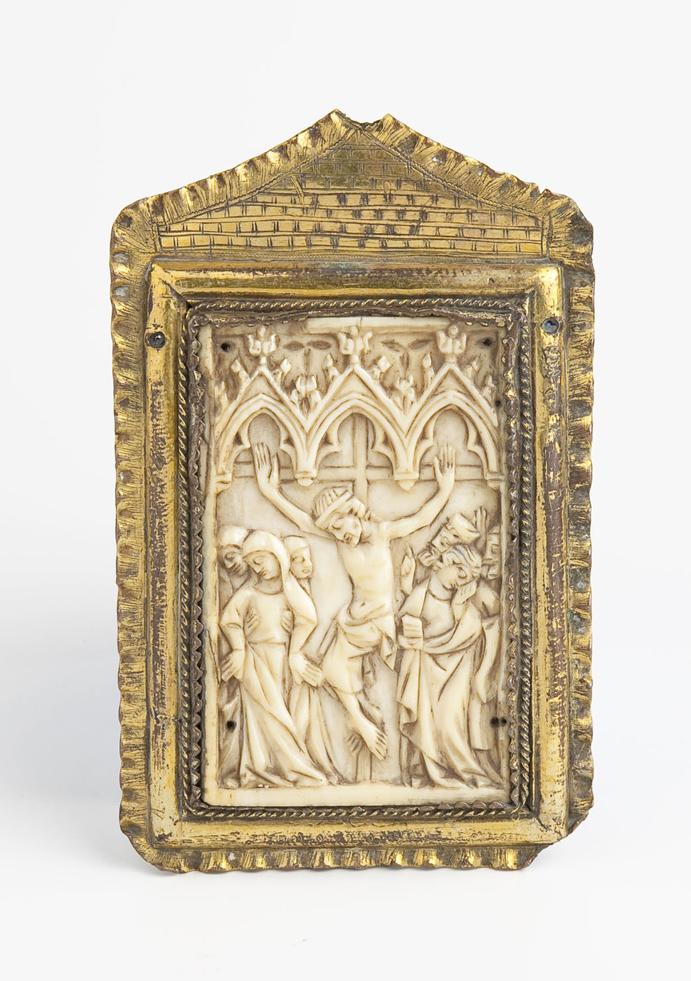 peace-carrie Crucifixion; swooning Virgin supported by Holy Women; saint John the Evangelist and onlookers holding scrolls. Pointed trefoils in the spandrels.